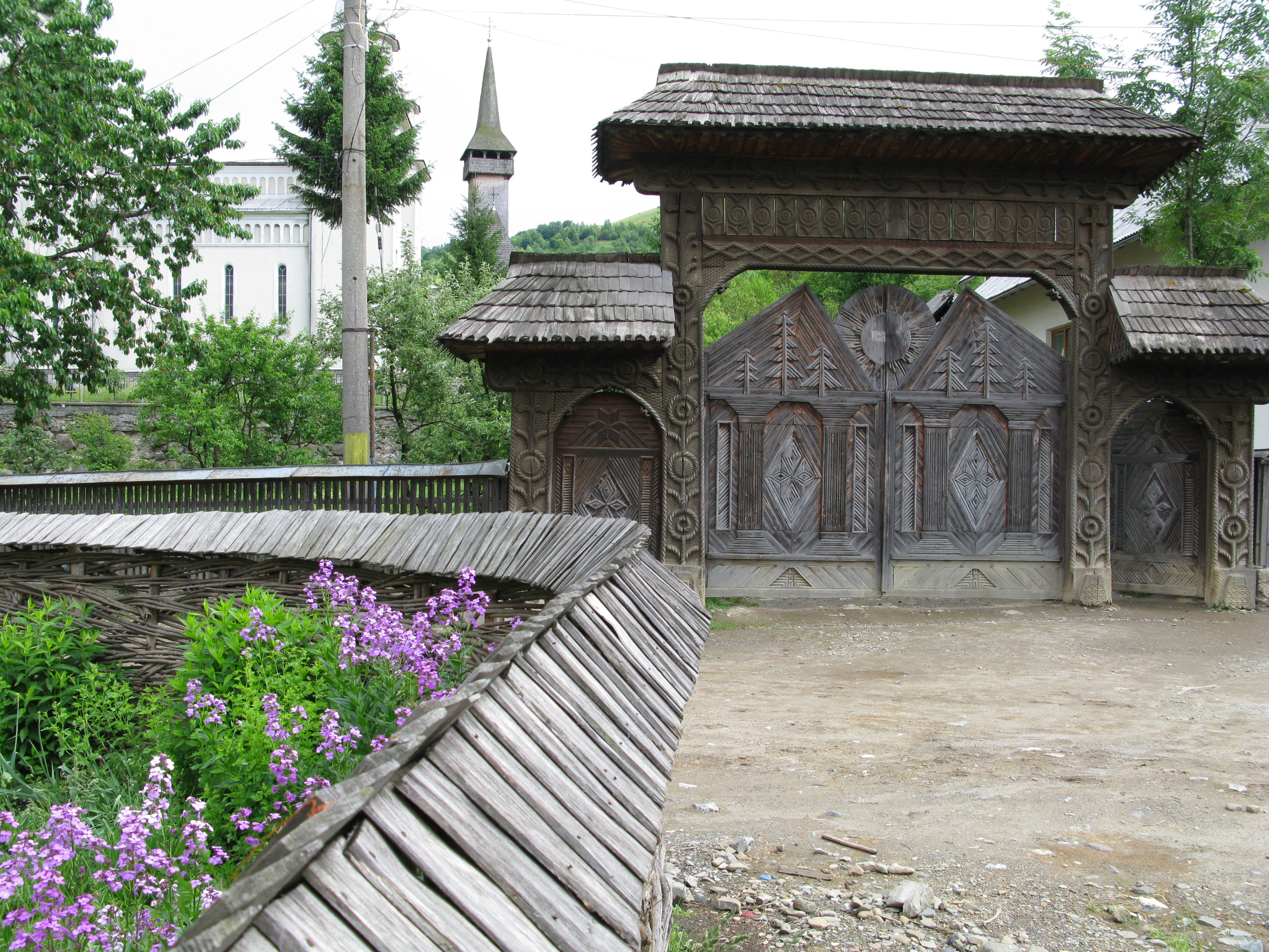 Wooden gate, entrance to the two orthodox churches in Botiza / Maramureş in north of Rumania / EU. The wooden gate has three inputs, left and right for people in the center for carriages. Right in the garden of the vicarage bloom lupini. In the garden behind the gate and a power pole is made of concrete.